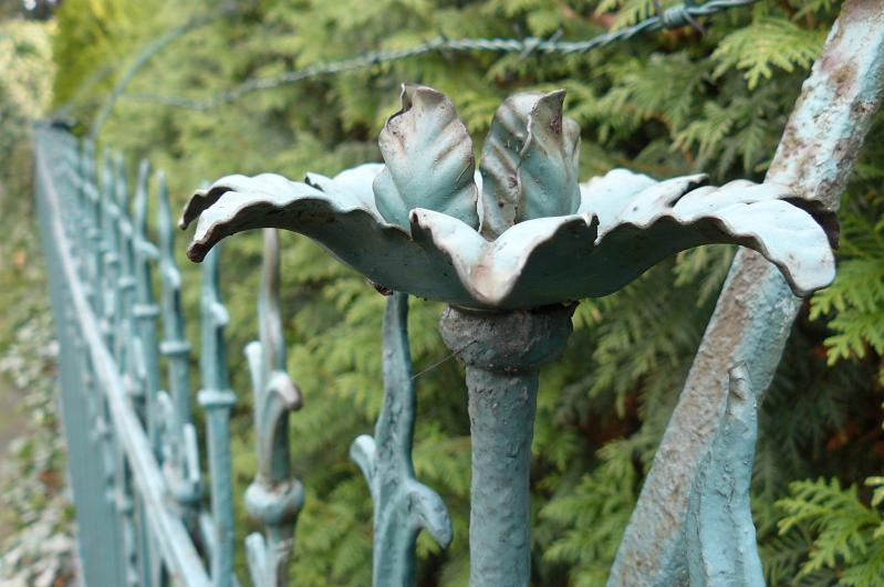 Poznan - Kaiser Wilhelm Anlage, detail.